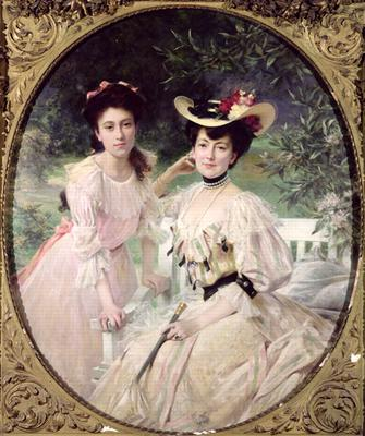 Portrait of Madame Collas and her daughter Giselle